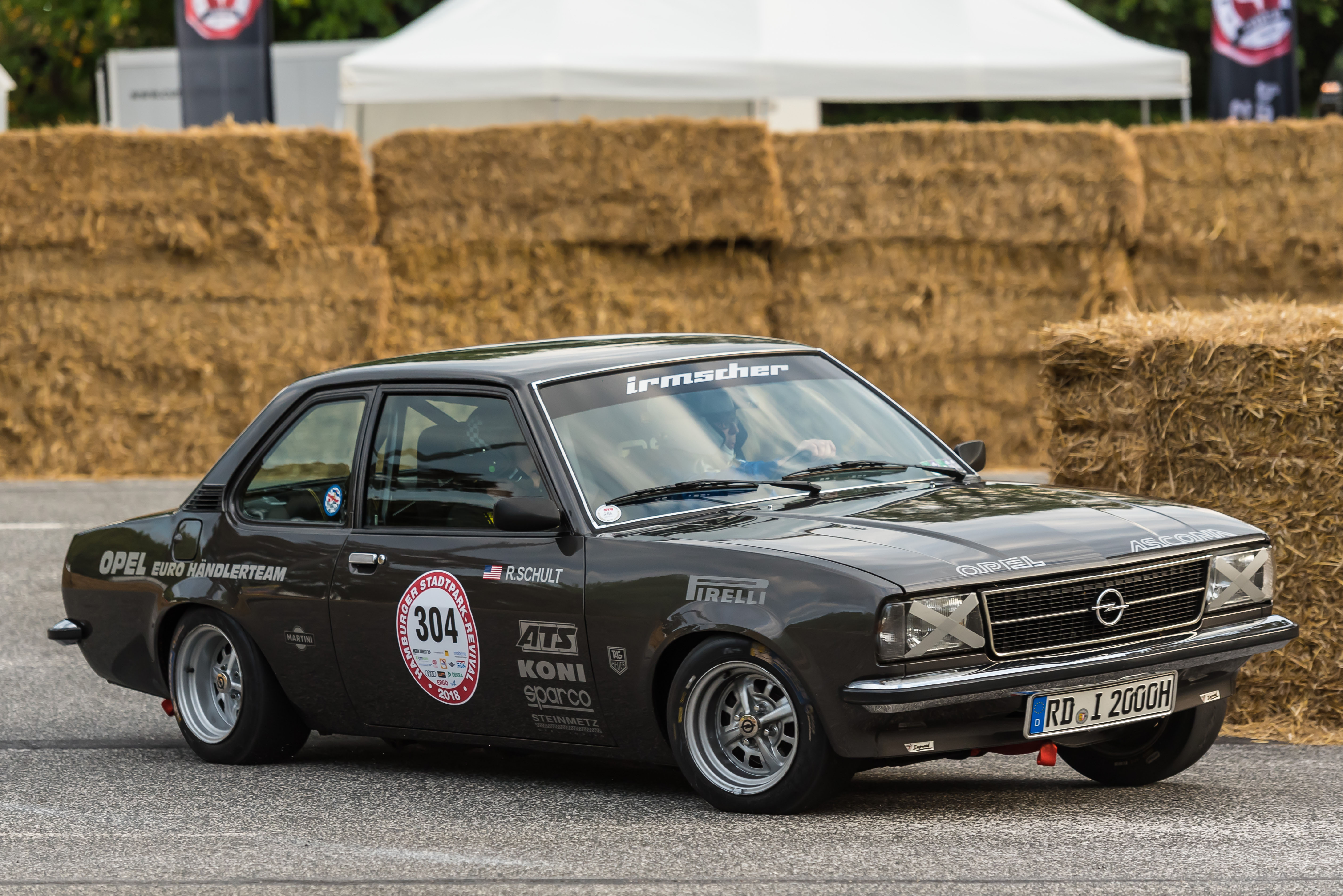 An Opel Ascona i2000, manufactured in 1979, at the 17th Hamburger Stadtpark-Revival on 8 September 2018, a festival for historic motor vehicles. Note that this vehicle lacks what is arguably the Ascona i2000's most distinctive external feature, its characteristic yellow-white livery.